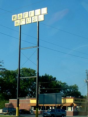 A Waffle House restaurant in Gadsden.